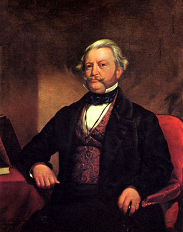 Townsend Harris, 1855 James Bogle